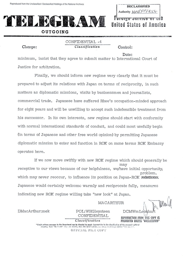 Telegram 3470 to the Department of States from the U.S.embassy in Japan